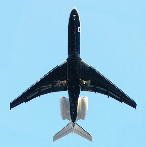 Large Business Jet flies overhead on short approach to landing.